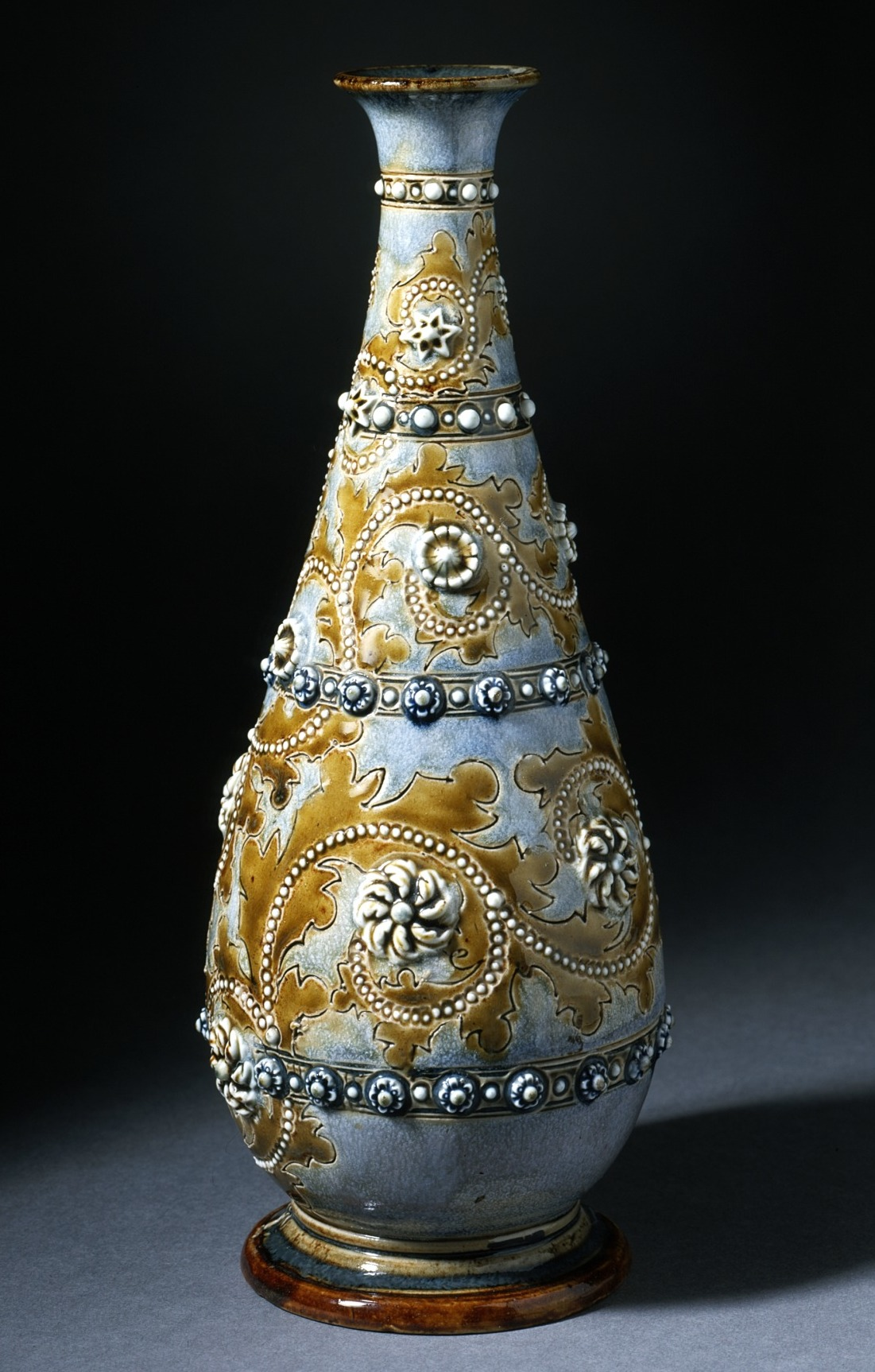 England, 1876 Furnishings; Accessories Salt-glazed stoneware Gift of Edward Judd (M.2001.97.1) Decorative Arts and Design